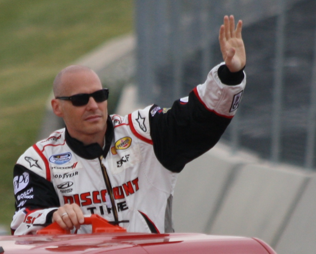 NASCAR driver Jacques Villeneuve during driver's introductions at the 2012 Sargento 200 Nationwide Series race at Road America.